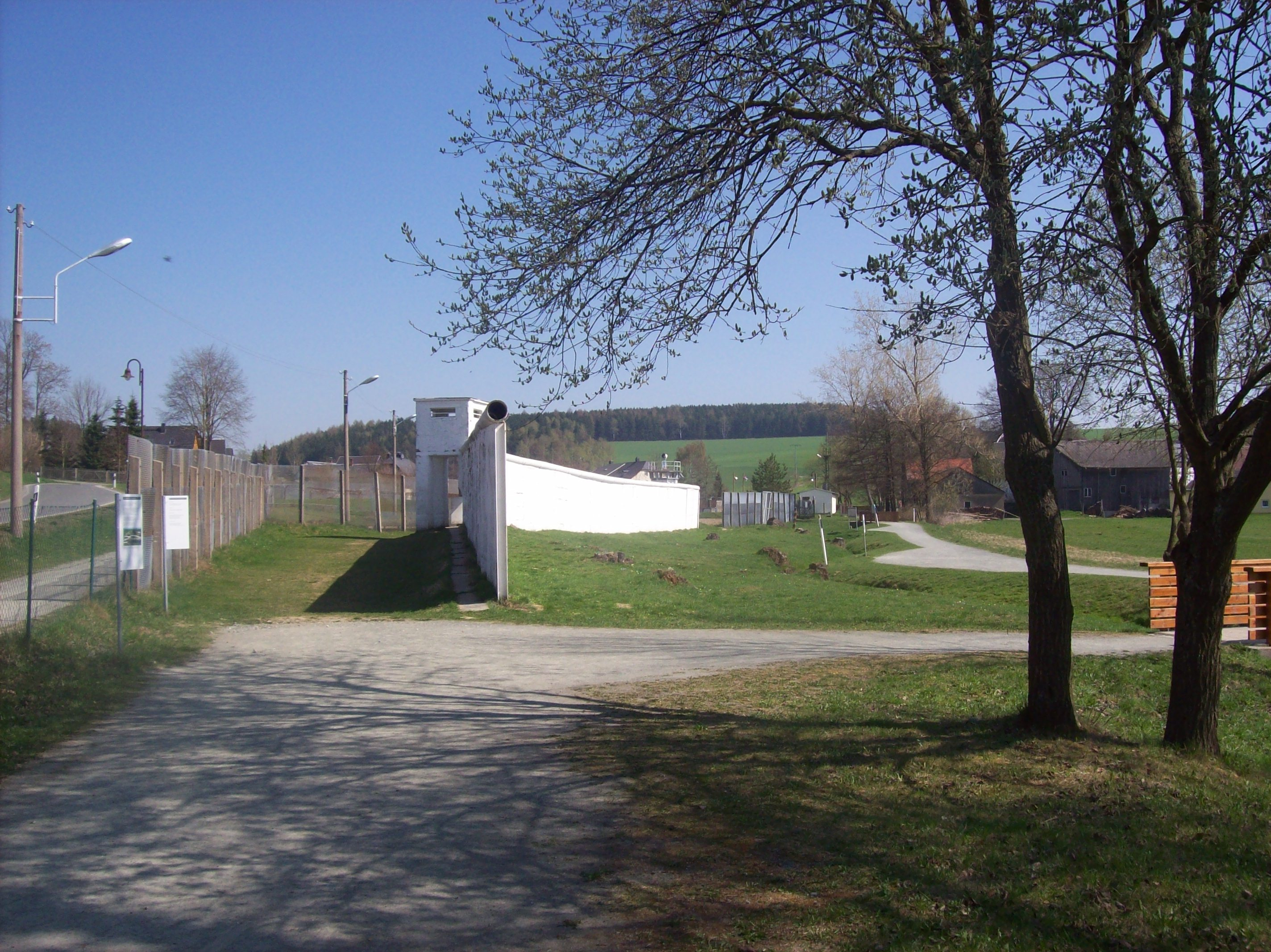 Mödlareuth (Germany) - open air museum